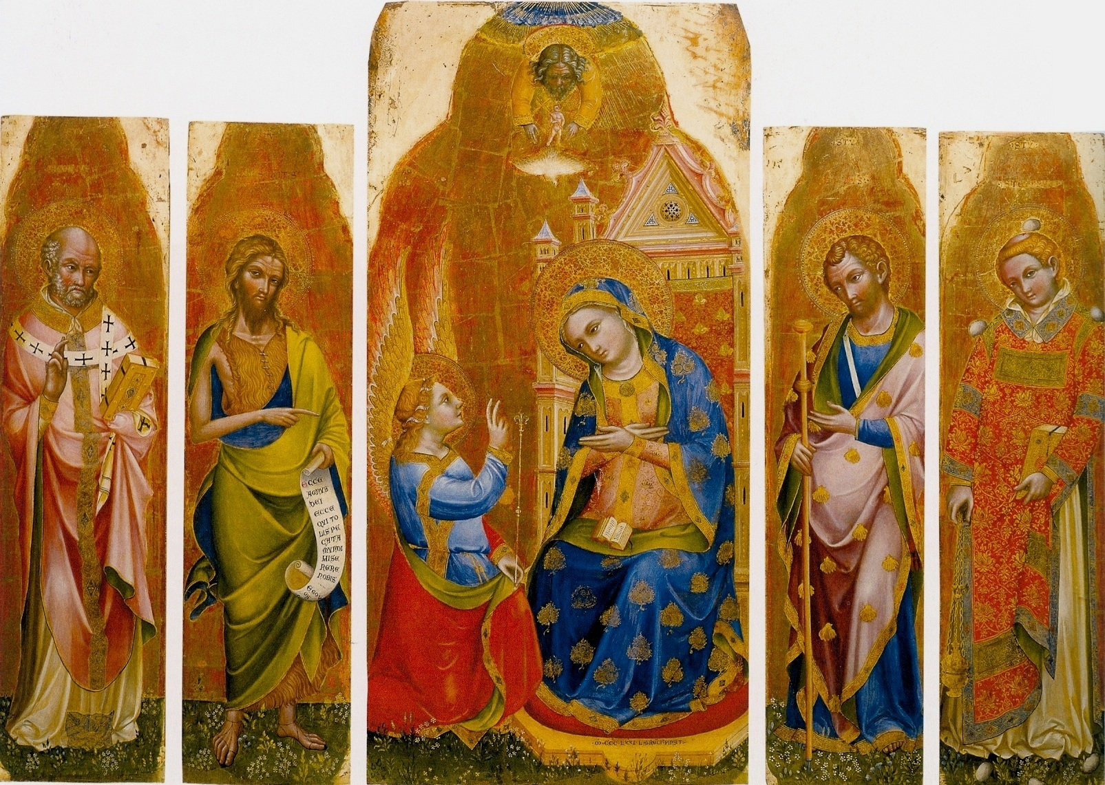 Lorenzo_Veneziano,_Annonciation_Polyptych._1371.__Gallerie_dell'Accademia,_Venice